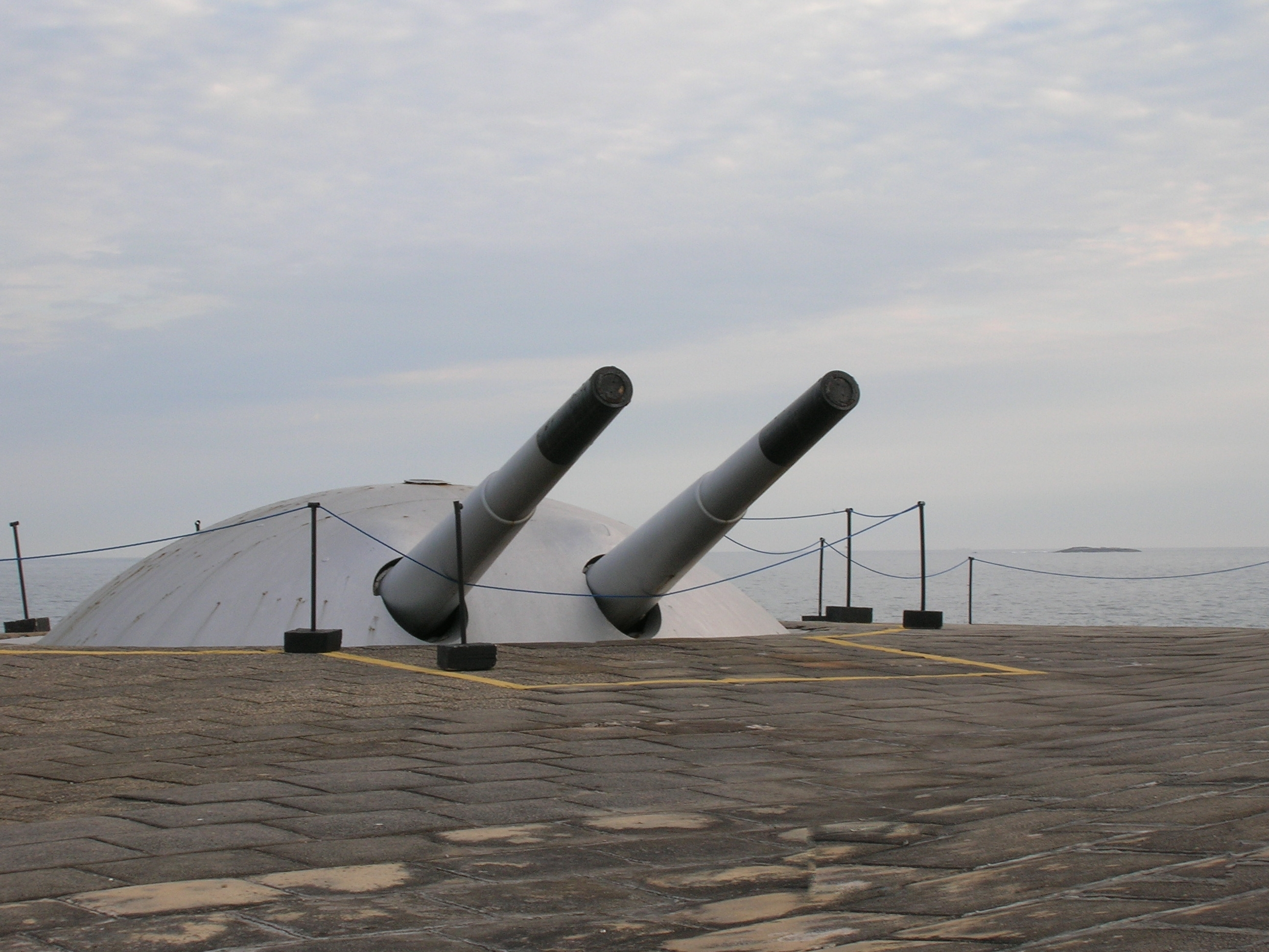 One of the two turrets that comprise the main battery at Forte Copacabana in Rio de Janeiro.